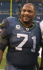 Seattle Seahawks offensive tackle Walter Jones posing for a picture after the game against the Philadelphia Eagles on November 2, 2008 at Qwest Field.